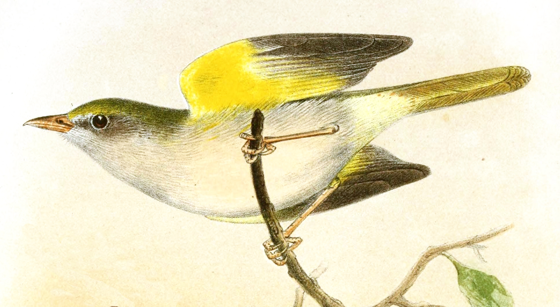 Grey-chested Greenlet, adult